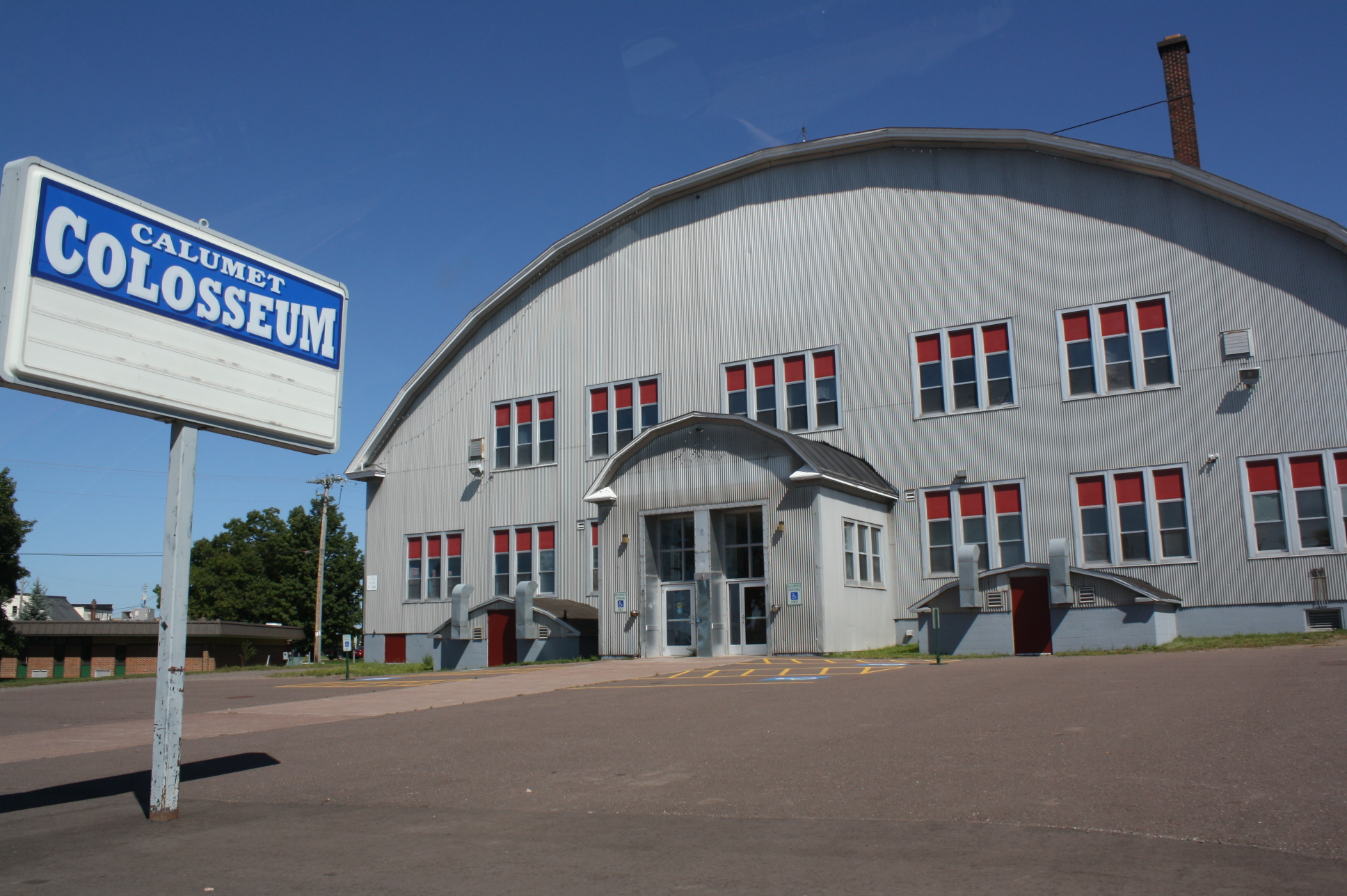 The Calumet Colosseum in Calumet, Michigan. It is an indoor ice hockey arena.